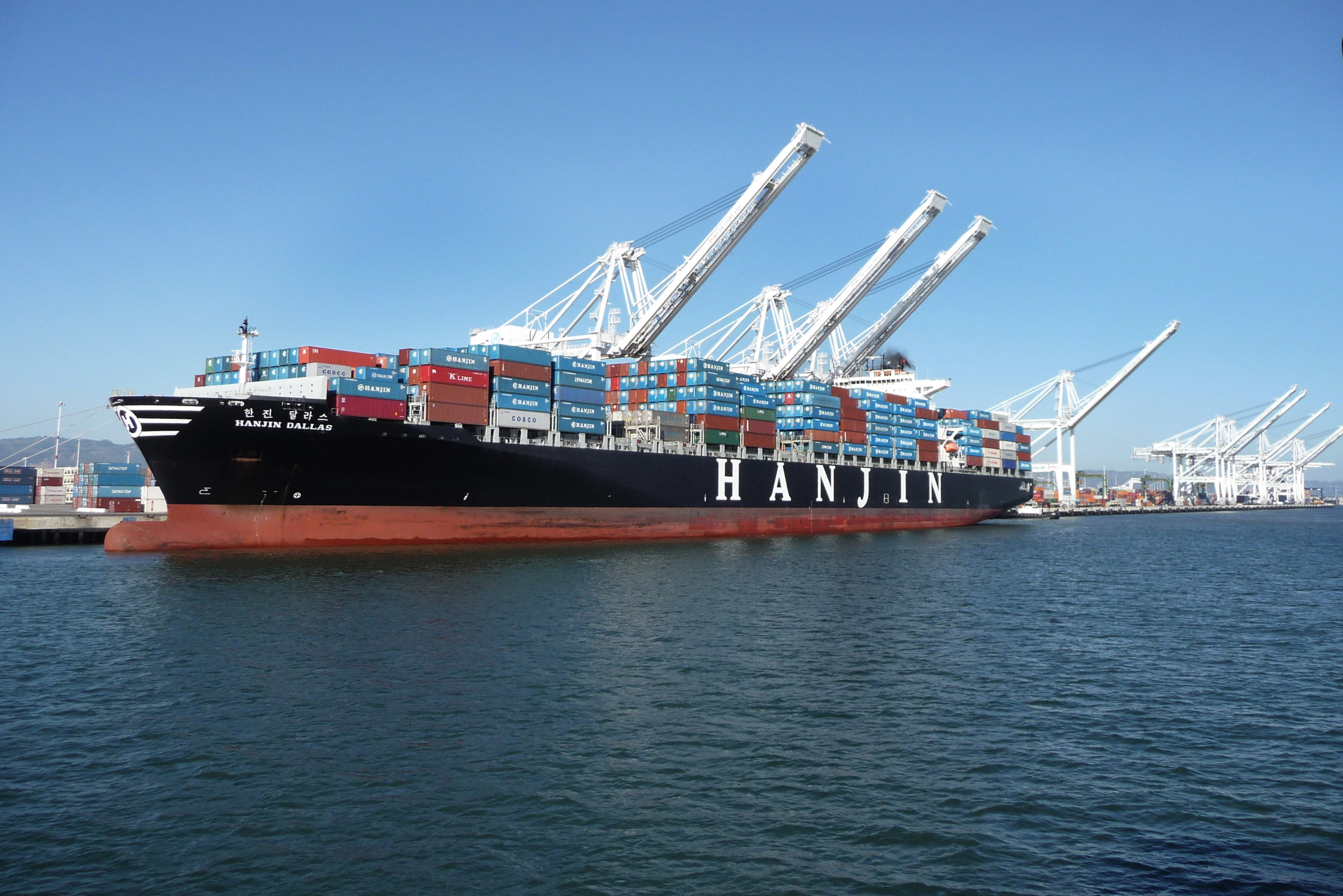 Hanjin Dallas, Port of Oakland